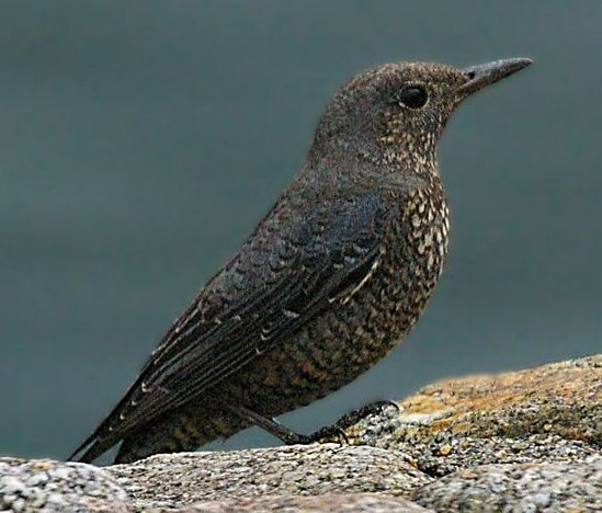 blue rockthrush (isohiodori), Japan, Yakushima island.